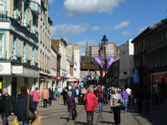 Murraygate, Dundee The Murraygate is among Dundee's main shopping streets and has been pedestrianised to a very high standard